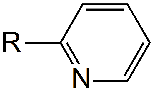 2-pyridyl radical group.